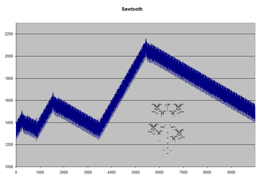 Number of live cells over 9620 generations. Highlights sawtooth population change.